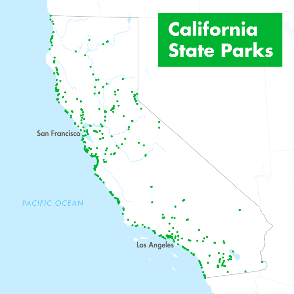 Projection: NAD83 / California Albers Source for State Park boundaries: Source for all other data: Natural Earth